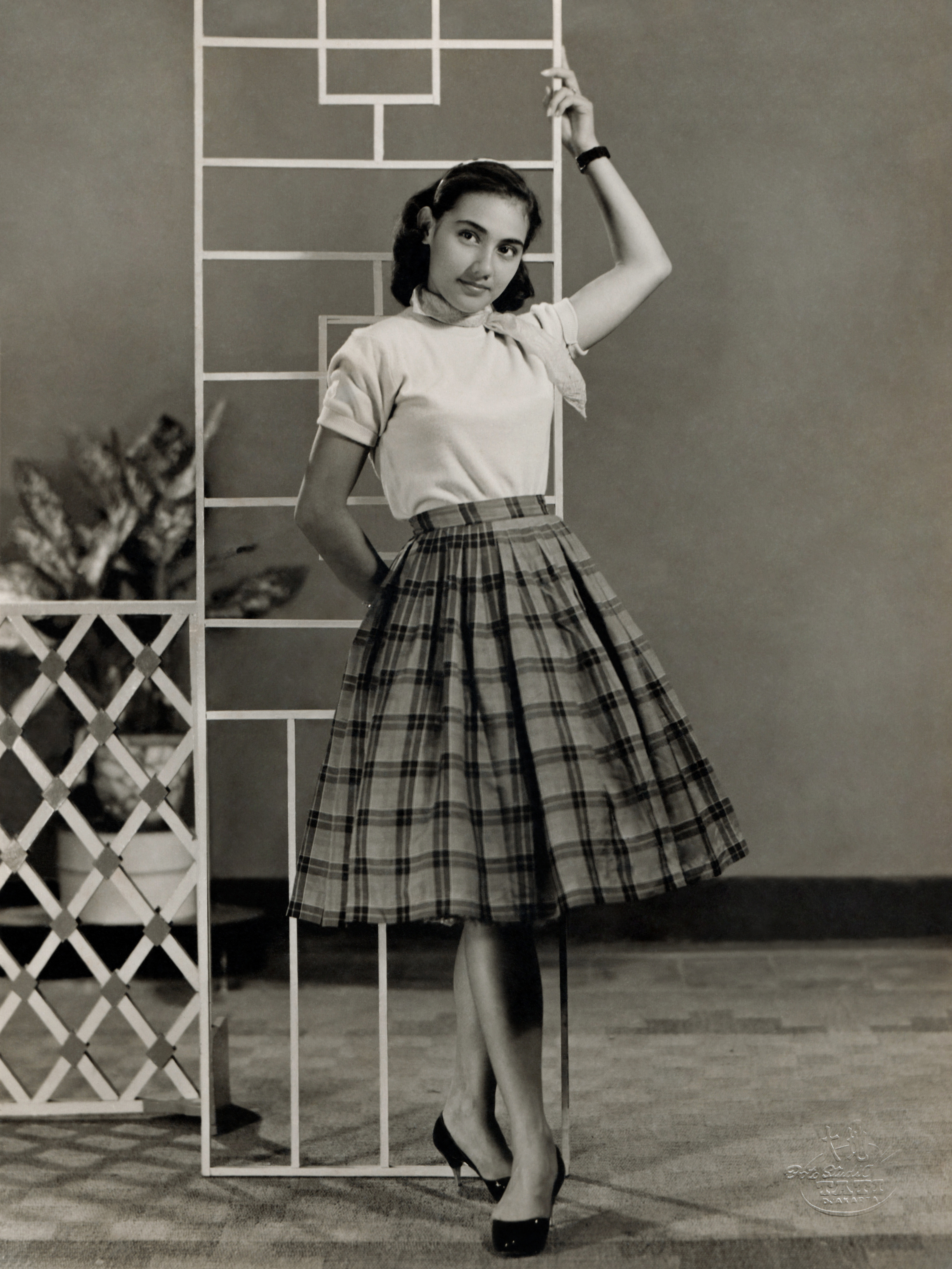 Indonesian film actress Indriati Iskak in a promotional still, c. 1960. A colour tinted version of this photograph was used as the cover for Selecta magazine in 1960, so it cannot date any later than that. Restoration from File:Indriati Iskak in a promotional still, c. 1960 - Before restoration.jpg by Crisco 1492, with additional restoration by Adam Cuerden.